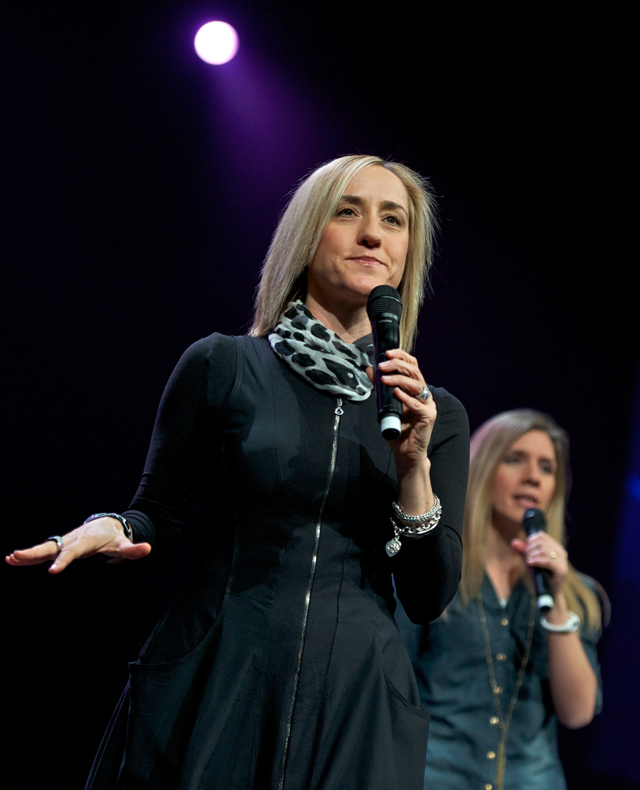 Stuttgart - 26 Januar: Christine Caine mit ihrern (li.) mit ihrer Ubersetzerin Carmen Bode